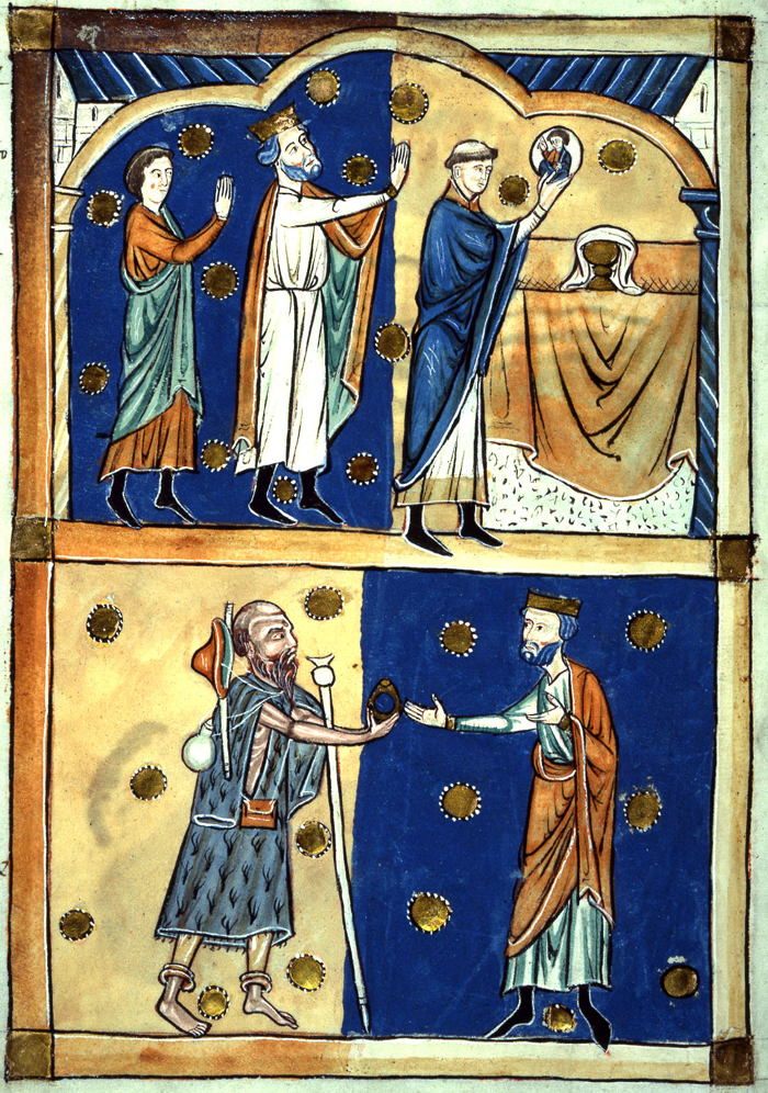 Description: Page from a 13th century Abbreviatio (abridgement) of Domesday Book. Above King Edward the Confessor and Earl Leofric of Mercia see the face of Christ appear in the Eucharist wafer and below the return of a ring given to a beggar who was John the Baptist in disguise. Date: c.1240 Our Catalogue Reference: E 36/284 This image is from the collections of The National Archives. Feel free to share it within the spirit of the Commons. For high quality reproductions of any item from our collection please contact our image library.